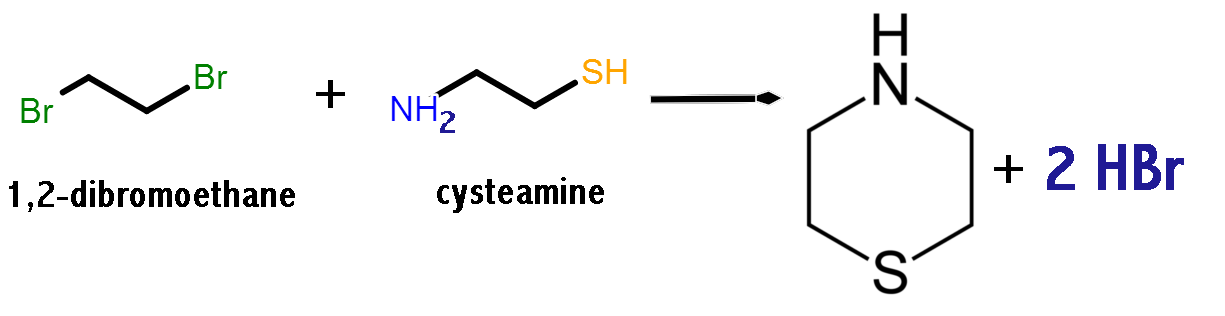 Thiomorpholine synthesis